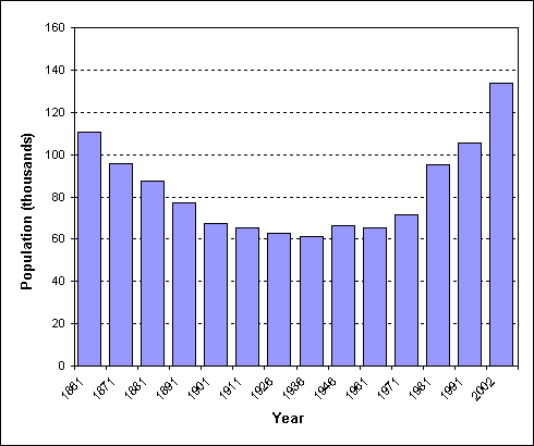 I made this graph about the evolution of the population of County Meath (Ireland), from 1861 to 2002, using data from the article (in English) about County Meath.